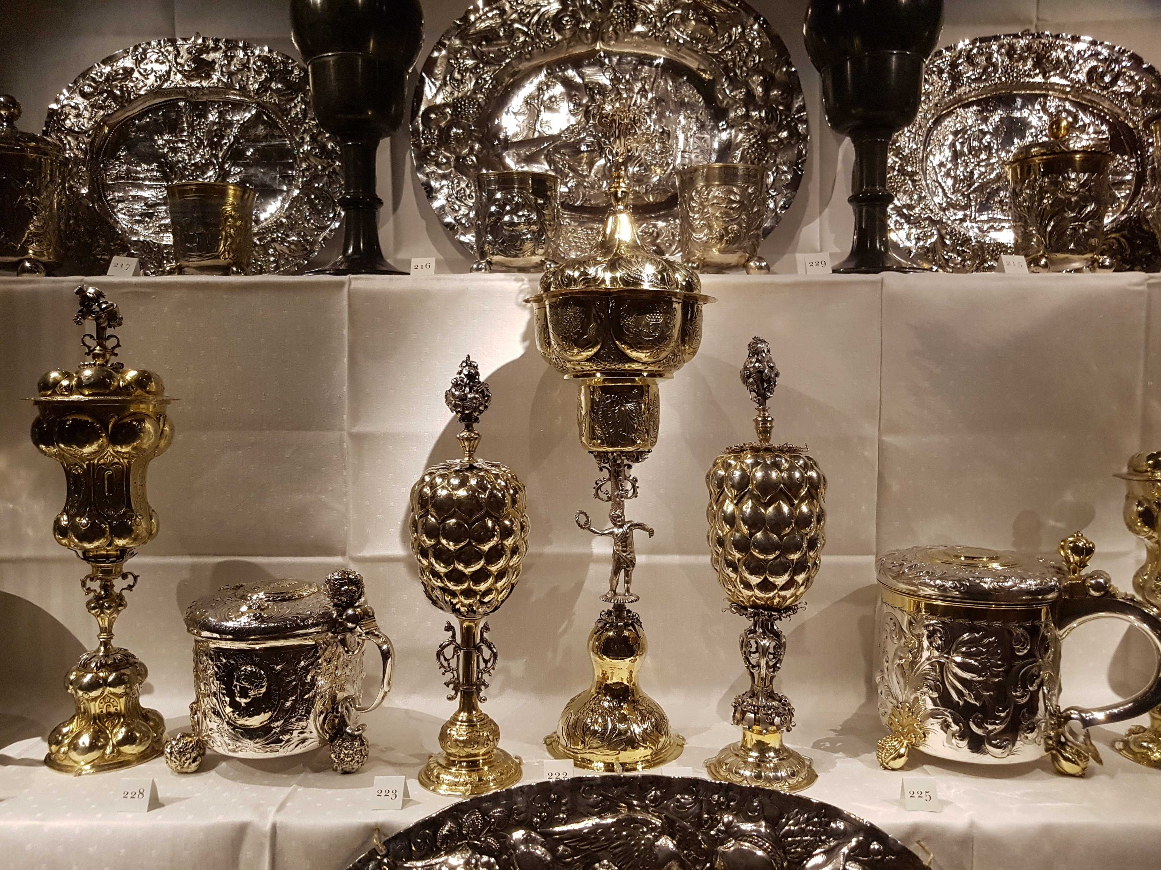 Läckö slott interior showing silverware